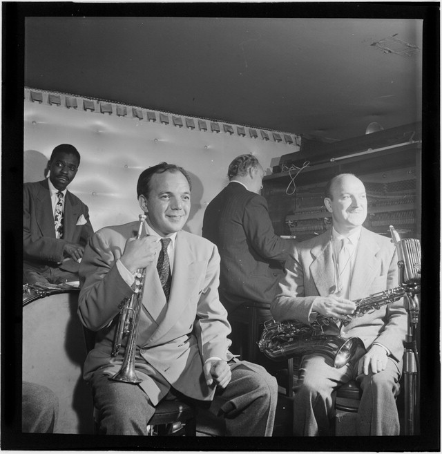 Marty Marsala and Bud Freeman, between 1938 and 1948